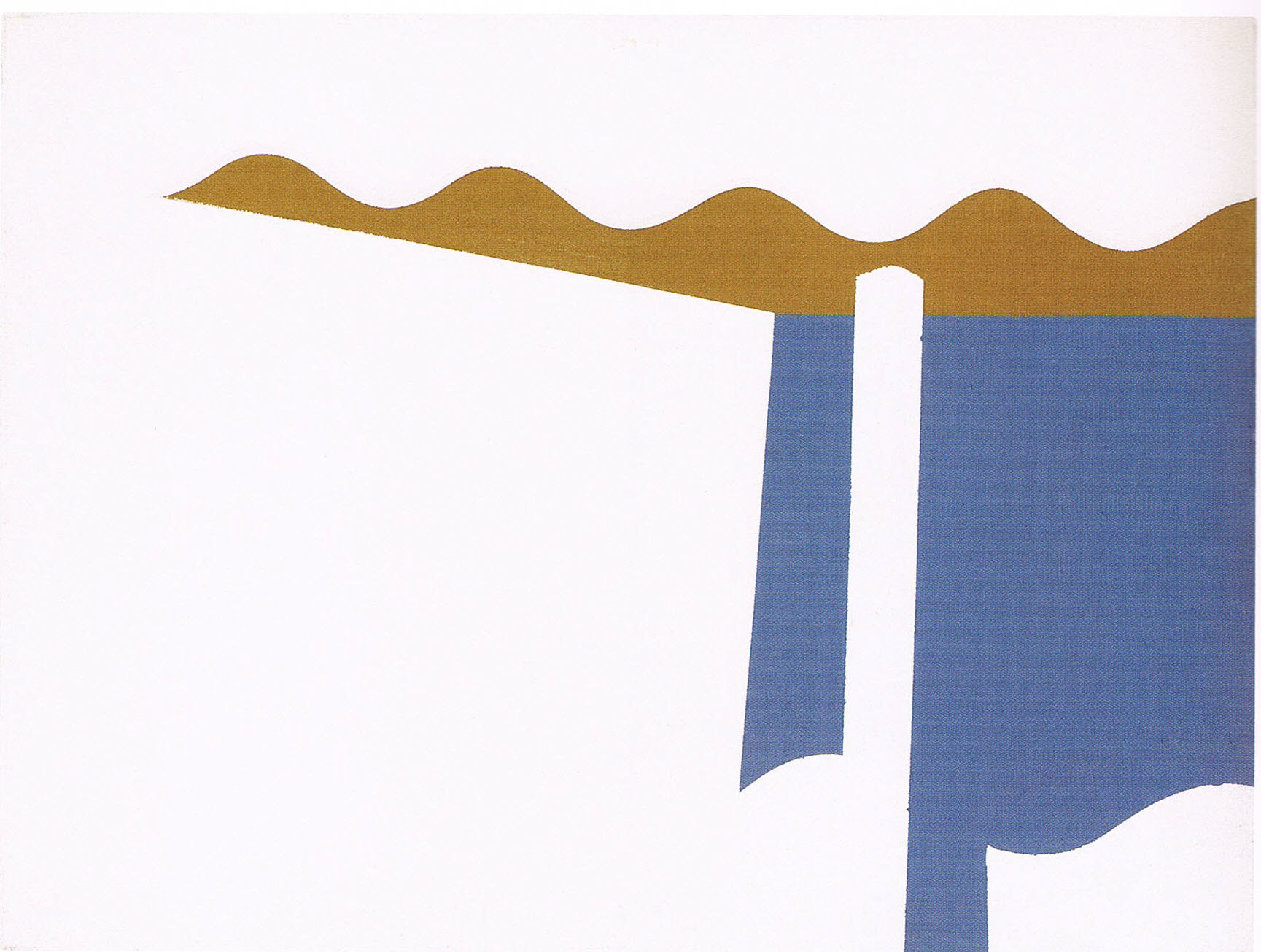 View of Corrugated Roof and Shadow